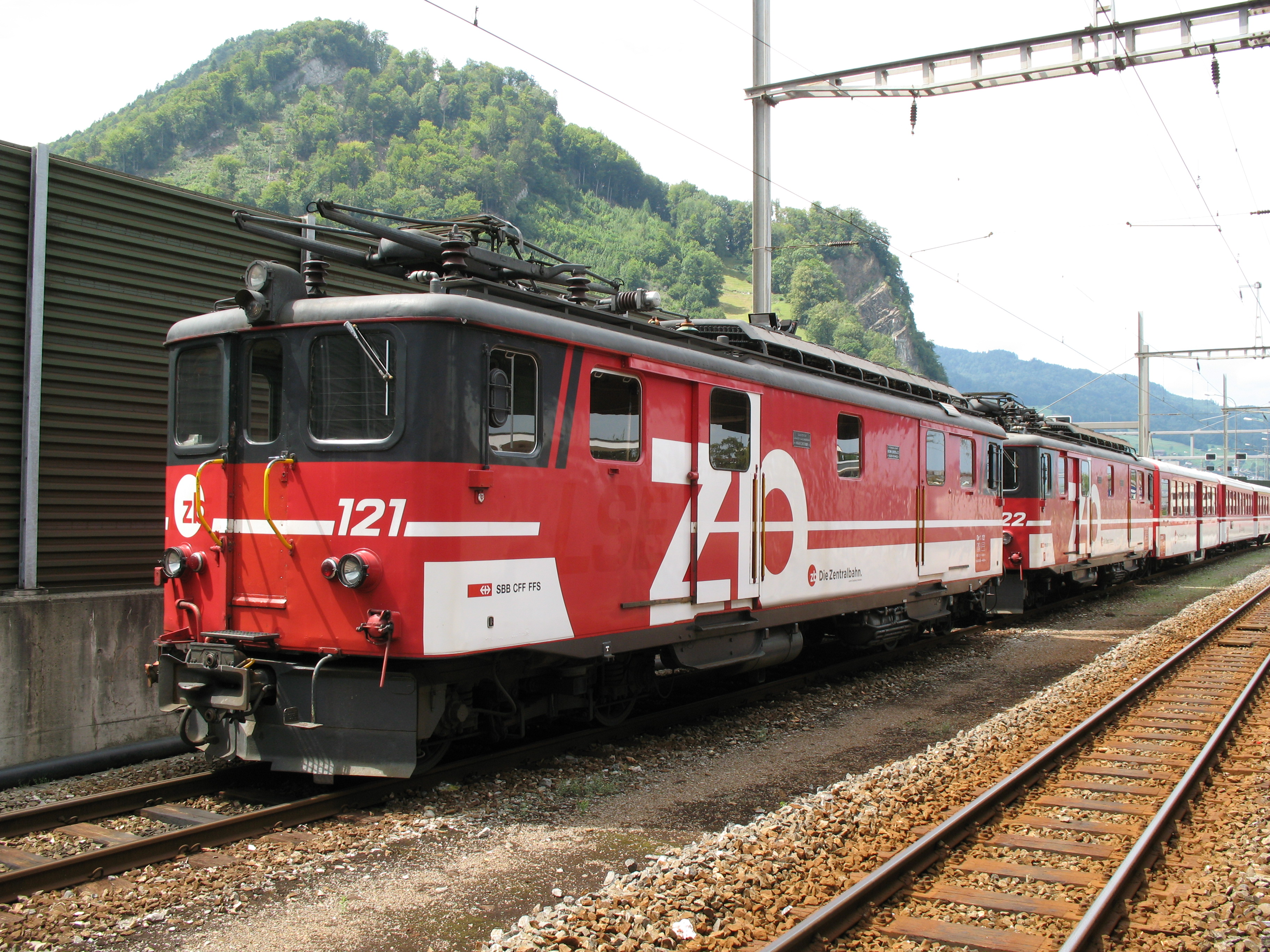 ZB Class De 4/4, Stansstad, Switzerland